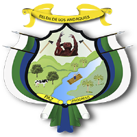 Escudo Belén de los Andaquíes